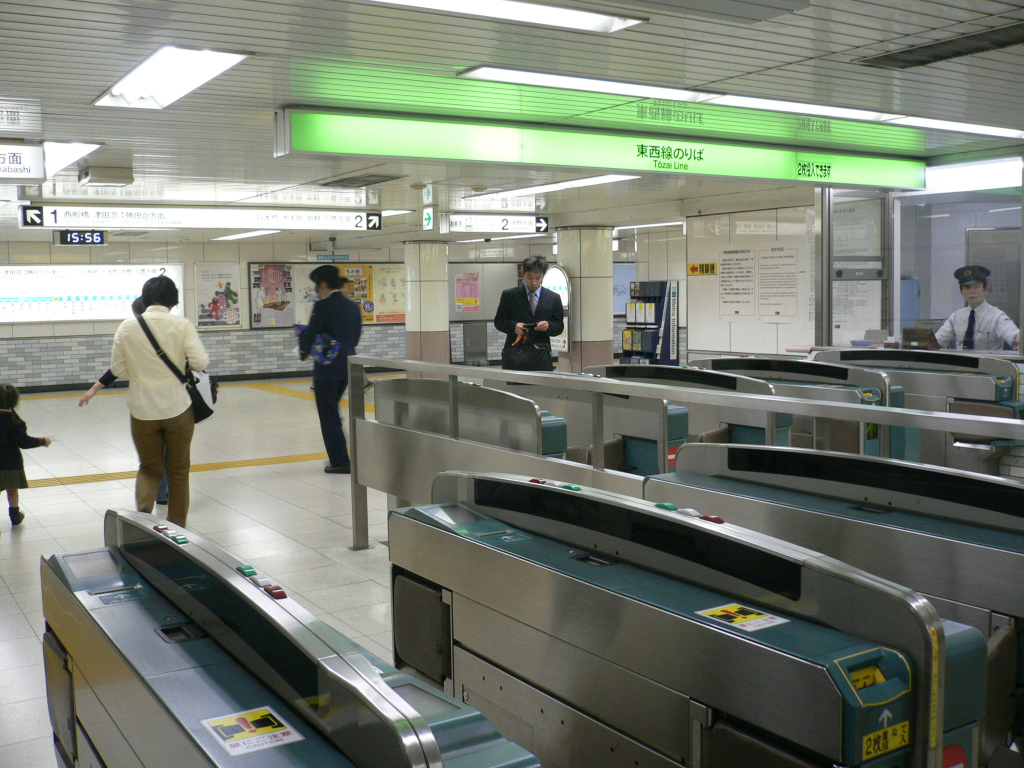 Tōyōchō Station (東陽町駅), Kotō W, Tokyō M.